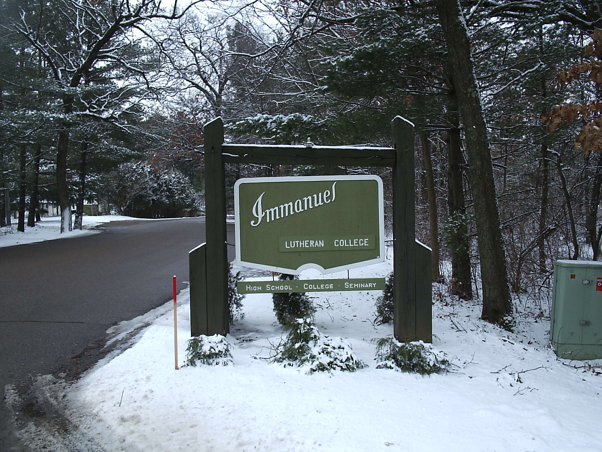 Sign at the entrance to Immanuel Lutheran College.